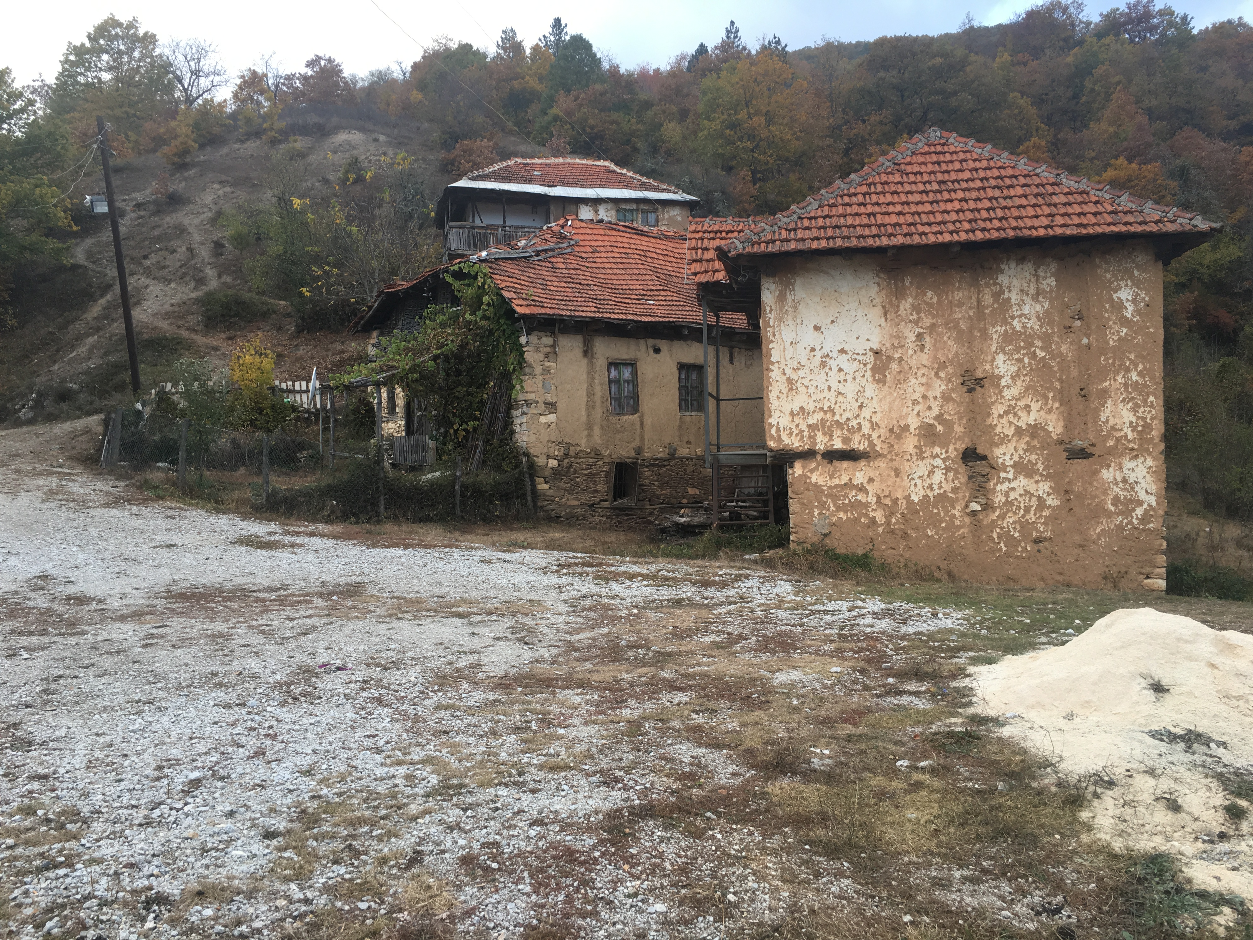 Wikiexpedition to Kopačka